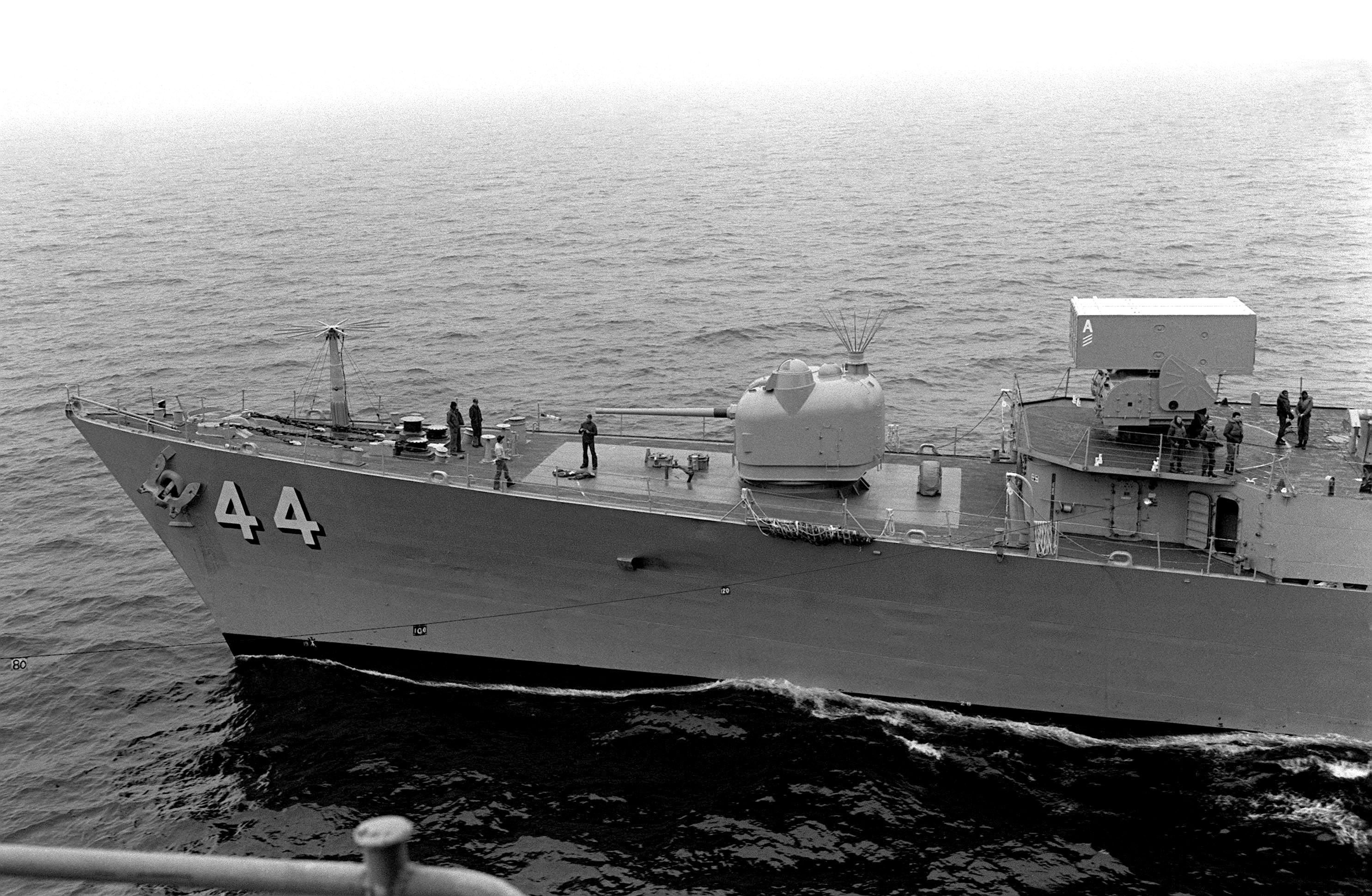 A port view of the bow of the guided missile destroyer USS WILLIAM V. PRATT (DDG 44) as the ship is refueled by the aircraft carrier USS INDEPENDENCE (CV 62). The INDEPENDENCE is conducting post-Service Life Extension Program (SLEP) operations off the Virginia Capes.